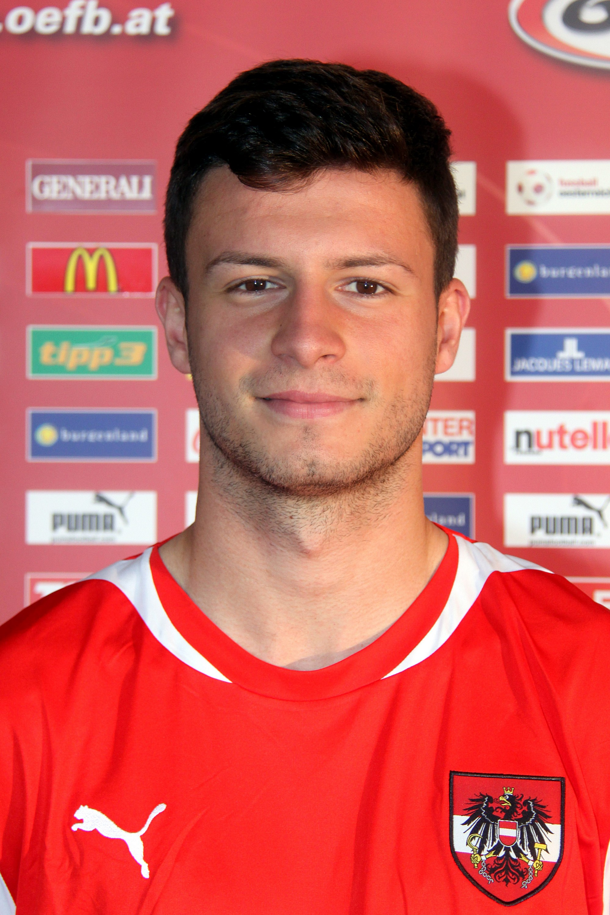 Marco Djuricin (Hertha BSC) - Austria national under-21 football team (age group 1990).